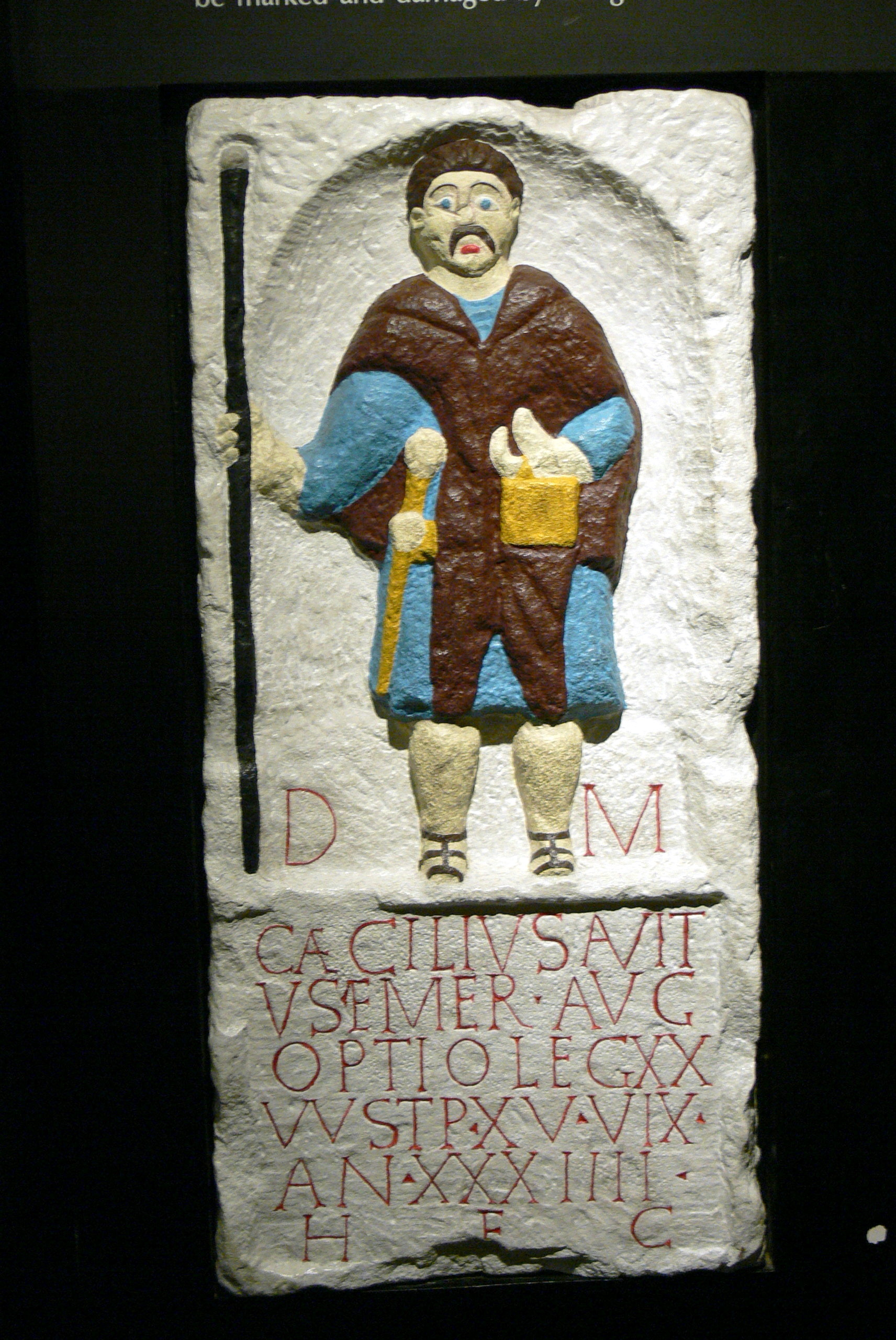 Chester ( England ). Grosvenor Museums: Tombstone of Caecilius Avitus, optio of Legio XX, with inscription D:M:CAECILIUS:AVITUS:EMER:AUG:OPTIO:LEG:XX:V:V:STP:XV::VIX:ANN:XXXIIII:H:F:C ( To the spirits of the departed, Caecilius Avitus from Emerita Augusta, optio of the twentieth legion Valeria Victrix, served 15 years, lived for 34 years. His heir had this stone made ) - Coloured reconstruction.